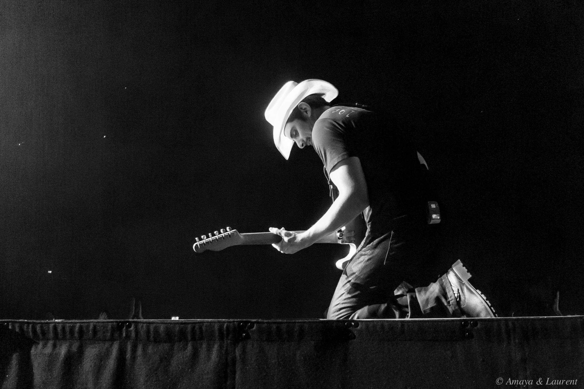 Brad Paisley at the Oslo Spektrum in Oslo, Norway, March 22, 2014